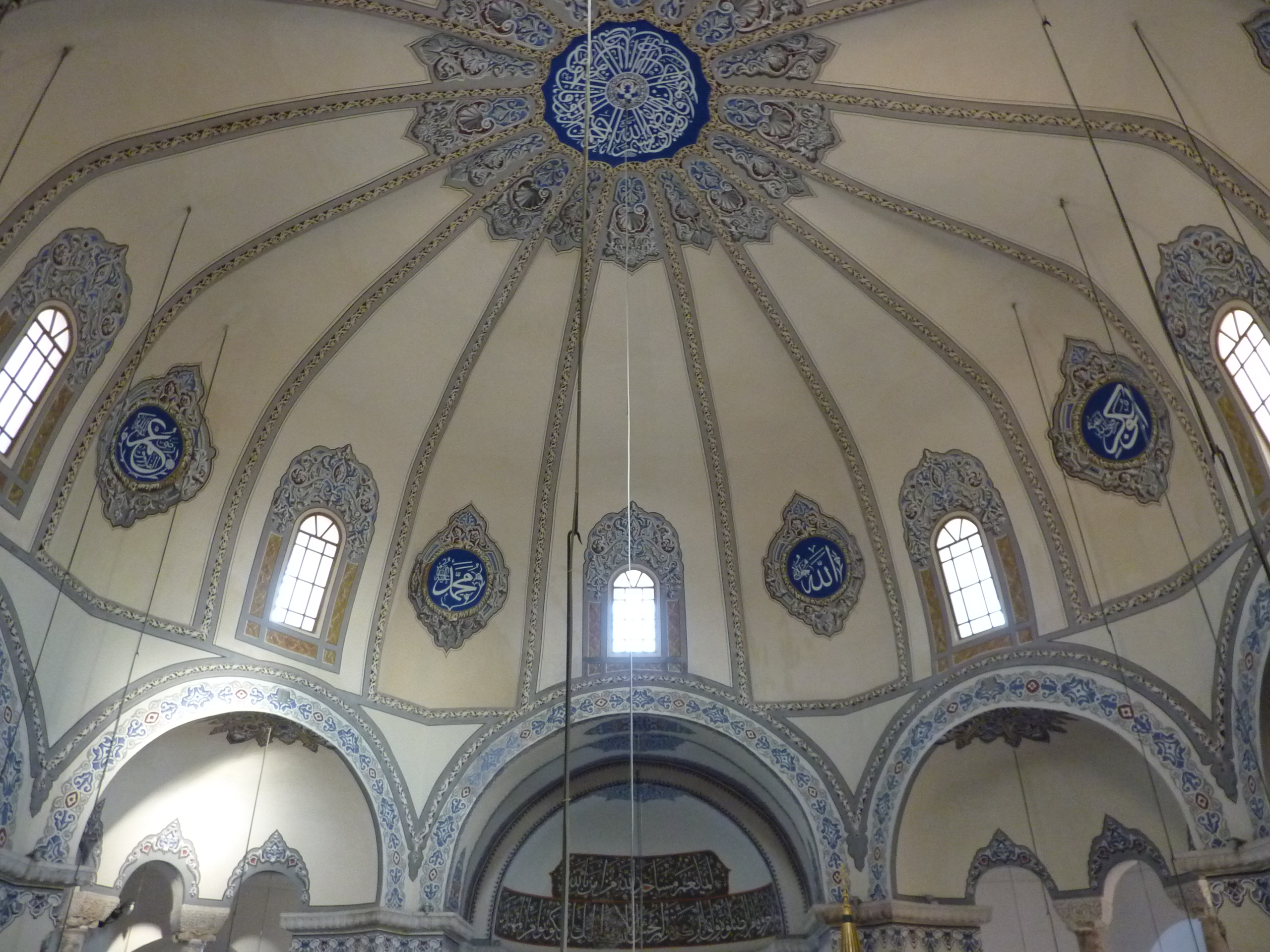 Inside the Little Hagia Sophia.